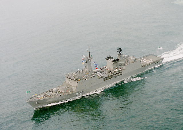 BNS Bongobondhu in the river Karnofuly, Chittagong, Bangladesh.